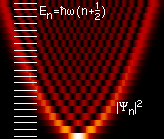 Picture of wavefunctions (and energy levels) of quantum harmonic oscillator, using color scale for probability density.